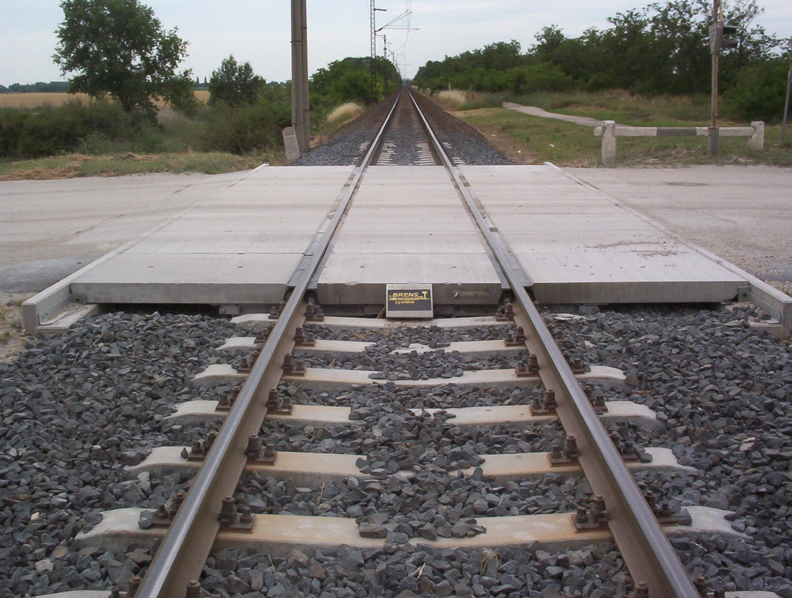 Super-Brens type level crossing on the Budapest–Kelebia railway line near Kiskunlacháza, Hungary.